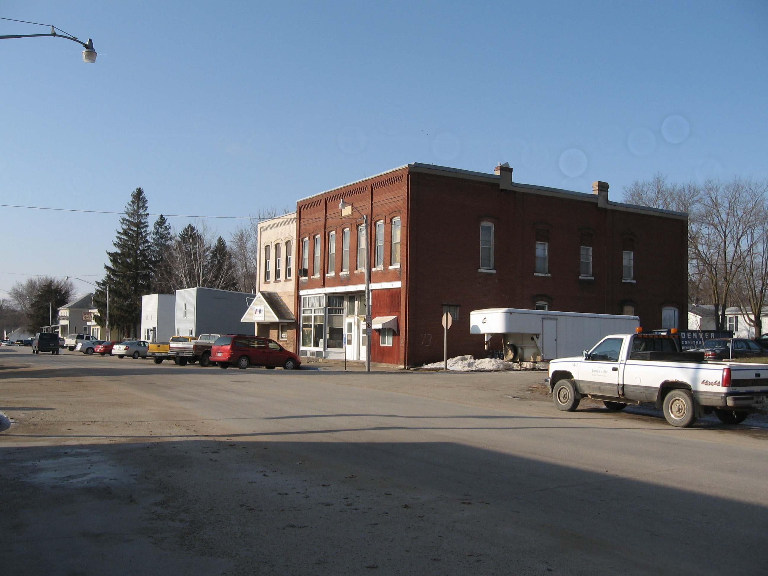 Downtown Janseville, Iowa